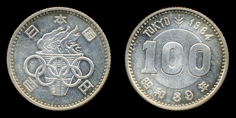 100yen-S39-Olympic-Tokyo